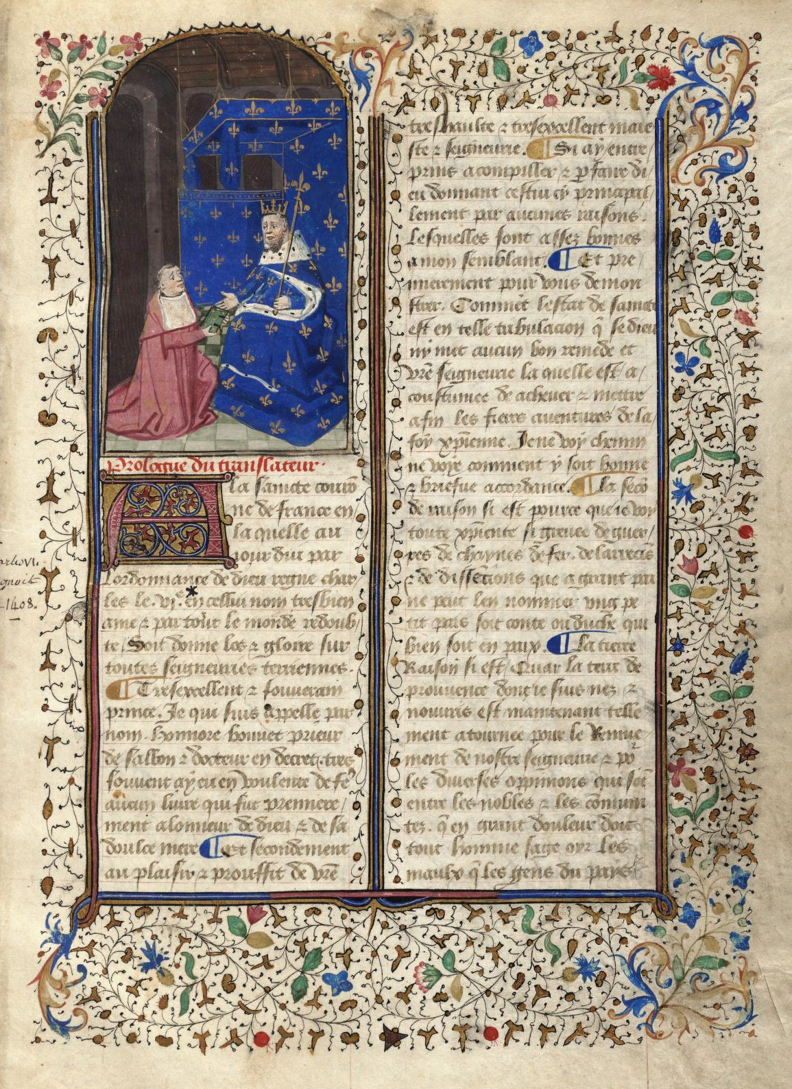 Manuscript: L’arbre des batailles [ca. 1400-1450], originally by Honoré Bonet (fl. 1378-1398). MS Typ 61, Houghton Library, Harvard University